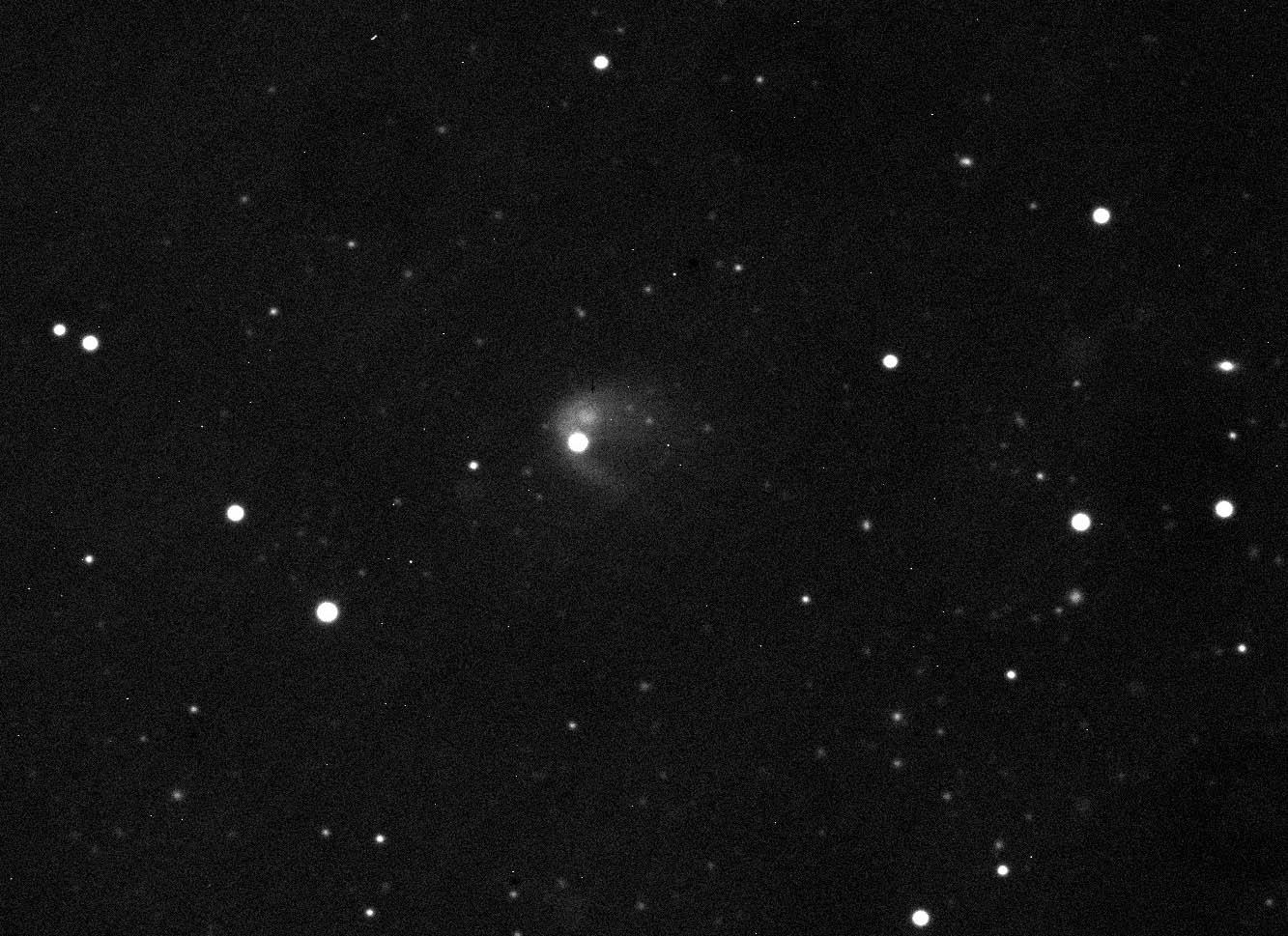 5 minute exposure of main belt asteroid 596 Scheila with a 24" telescope. You can clearly see signs of Scheila acting like a main-belt comet and displaying a cometary tail. This image was taken at 2010-12-12 12:00 UT.